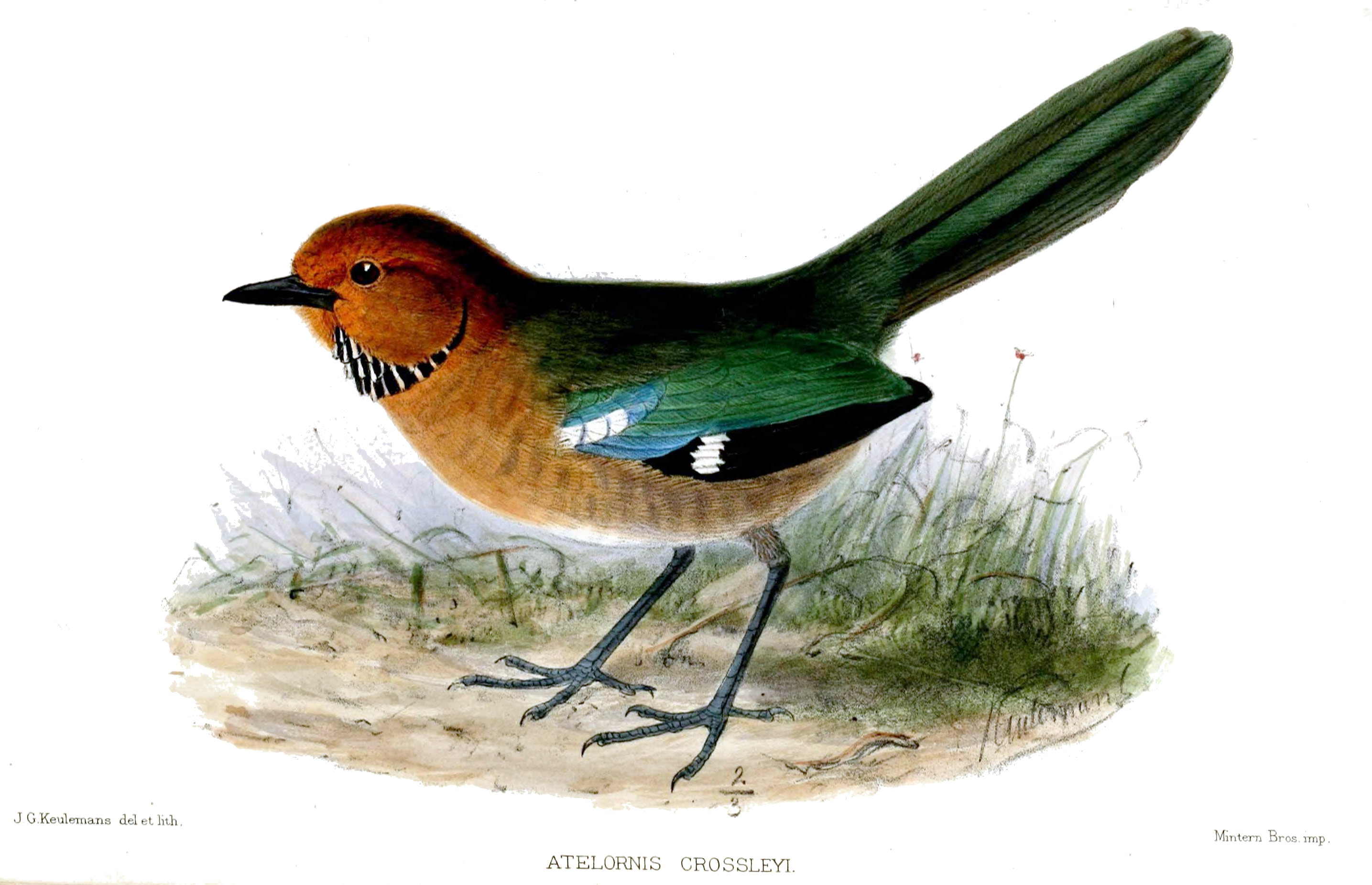 Atelornis crossleyi